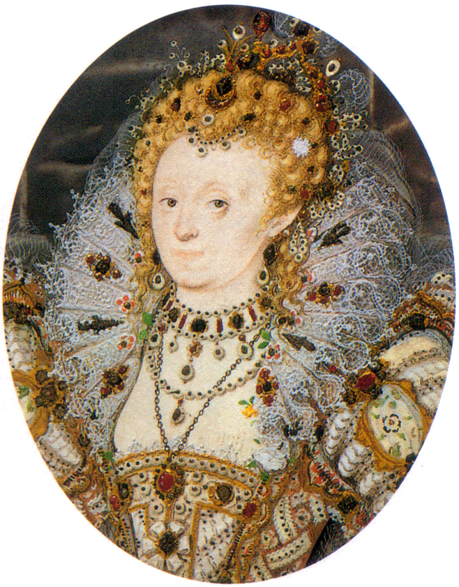 Portrait miniature of Elizabeth I of England with a crescent moon jewel in her hair